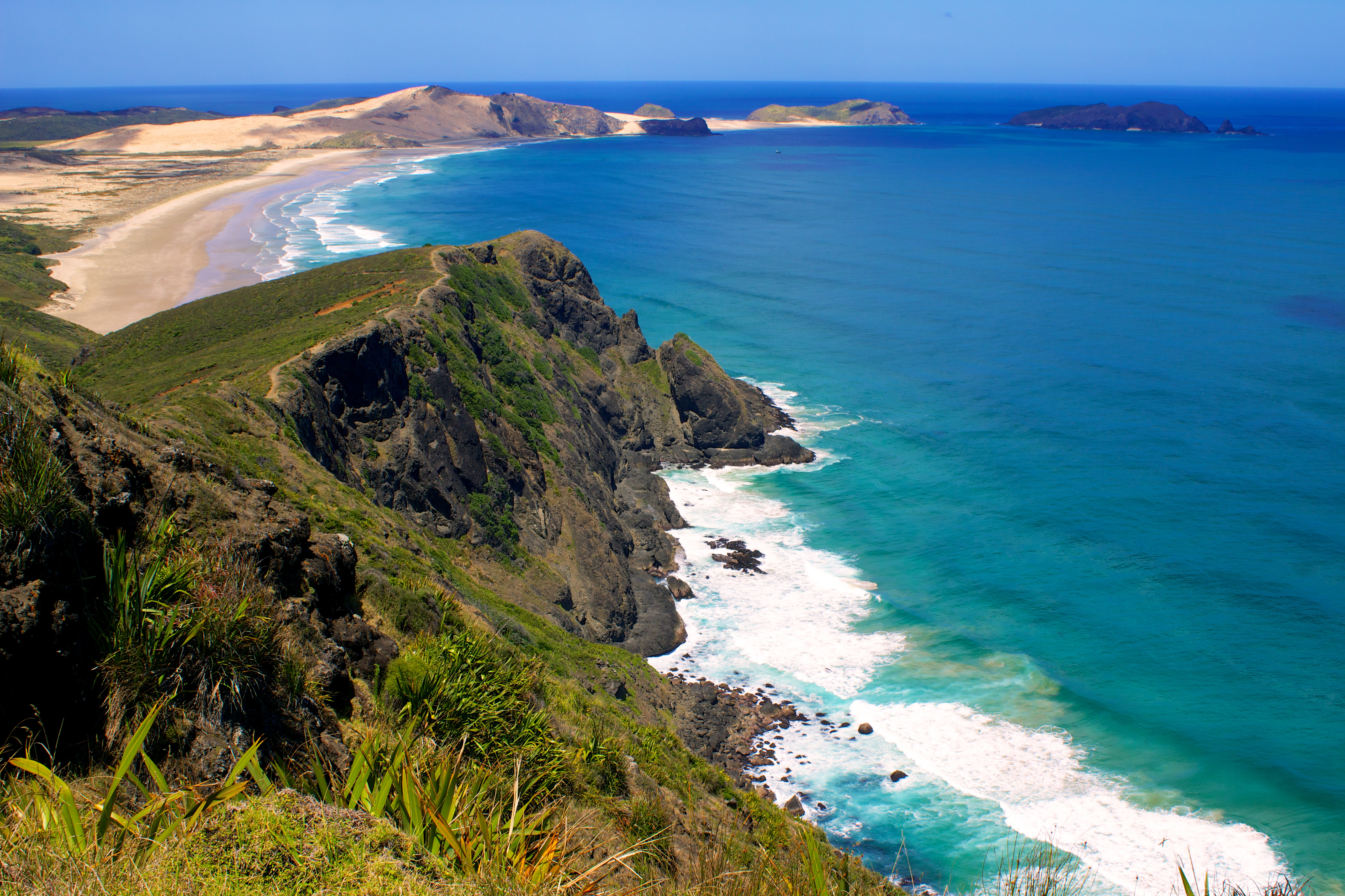 Cape Reinga, New Zealand